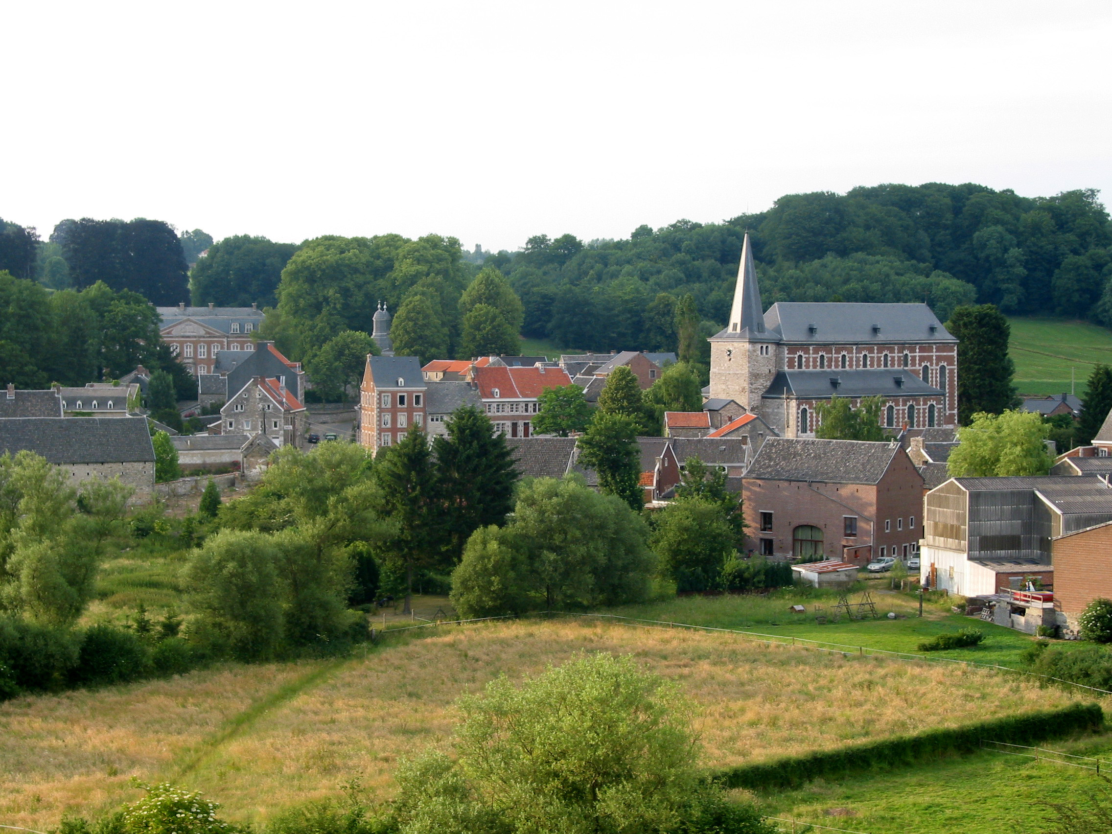 Soiron (Belgium), view of the village.